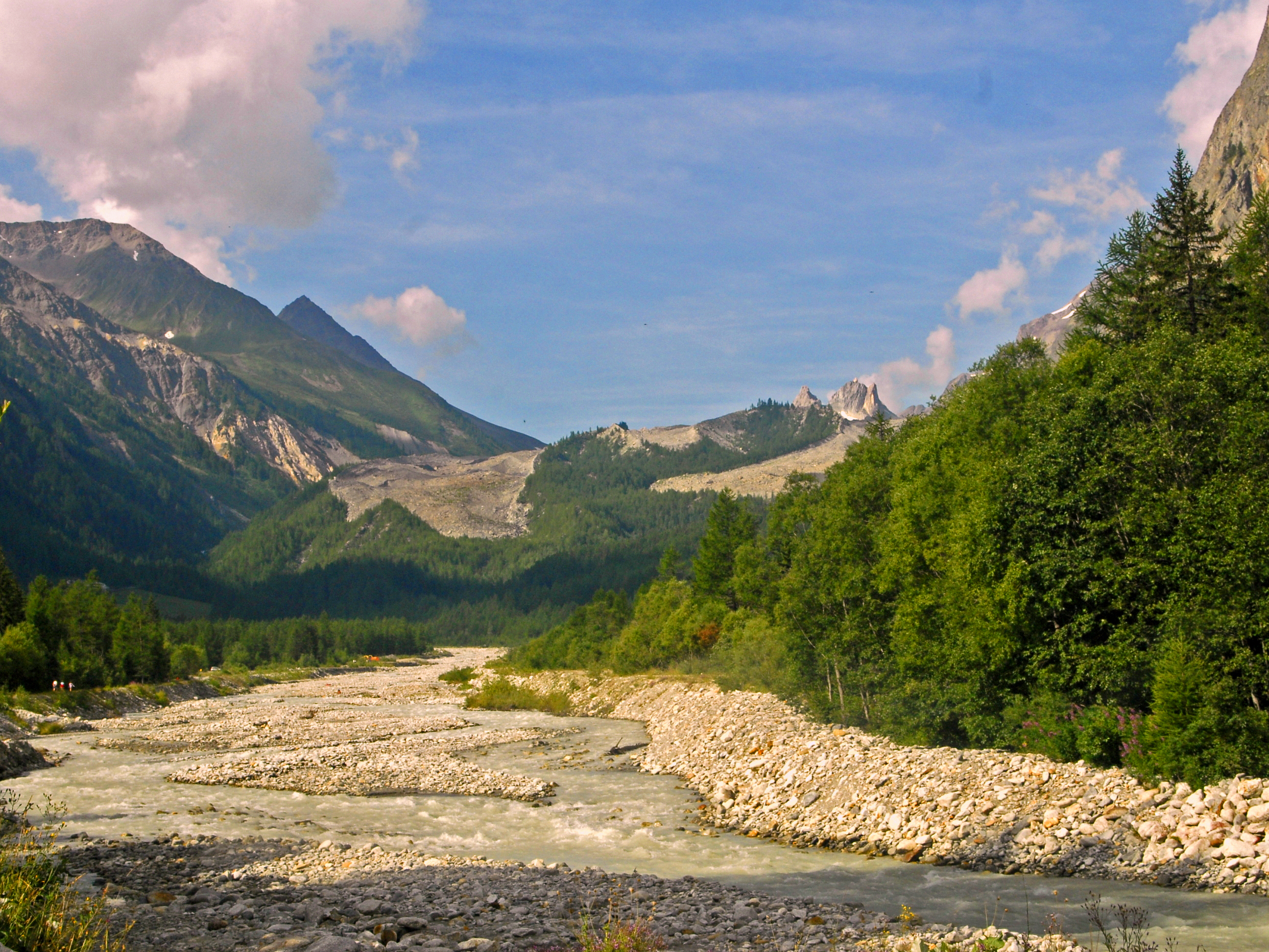 River banks in Val Veny, Aosta, Italy- Habitat of Epiblema foenella